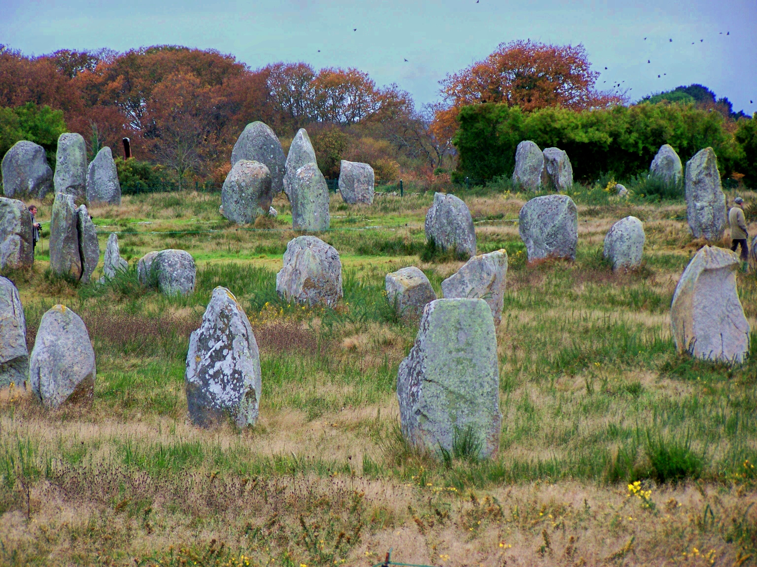 Stones in the Kermario alignment, Carnac, France